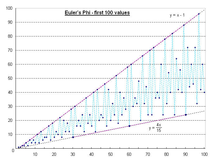 Graph of the first 100 values for Euler's totient function Note that the lower bound of y = 4n/15 is not an actual lower bound for the complete totient function (over all natural numbers)! There are many values below that line, but none in the first 100.